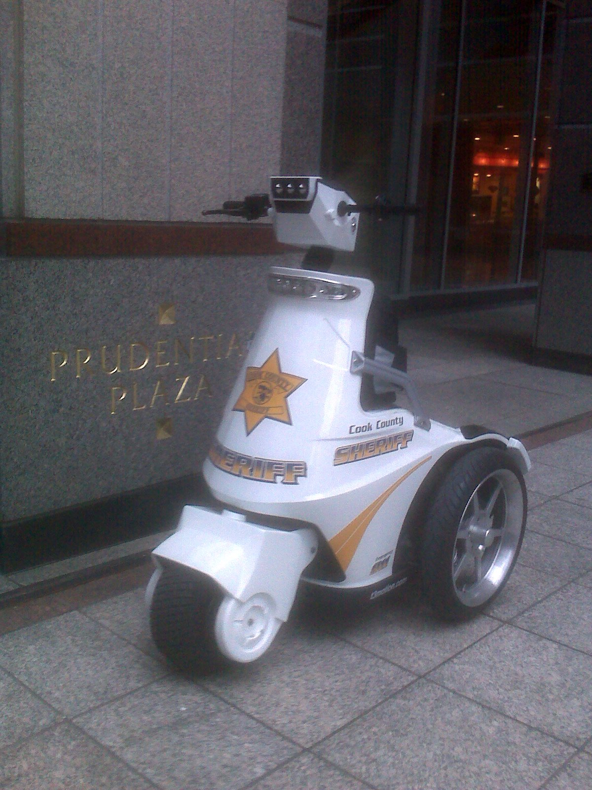 A T3 Patroller stand-up motorized electric tricycle or motorized scooter made by T3 Motion. This one is labeled as a Cook County sheriff vehicle.